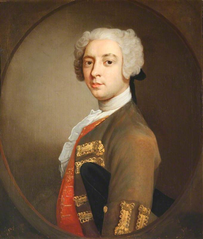 Portrait of Lionel Tollemache, 5th Earl of Dysart (1734-1799), British (English) School, circa 1750. A painted oval half-length portrait of a young man, turned to the left, gazing at the spectator, short powdered wig, brown coat with gold frogging, red waistcoat and frilled shirt front. Vague landscape background.